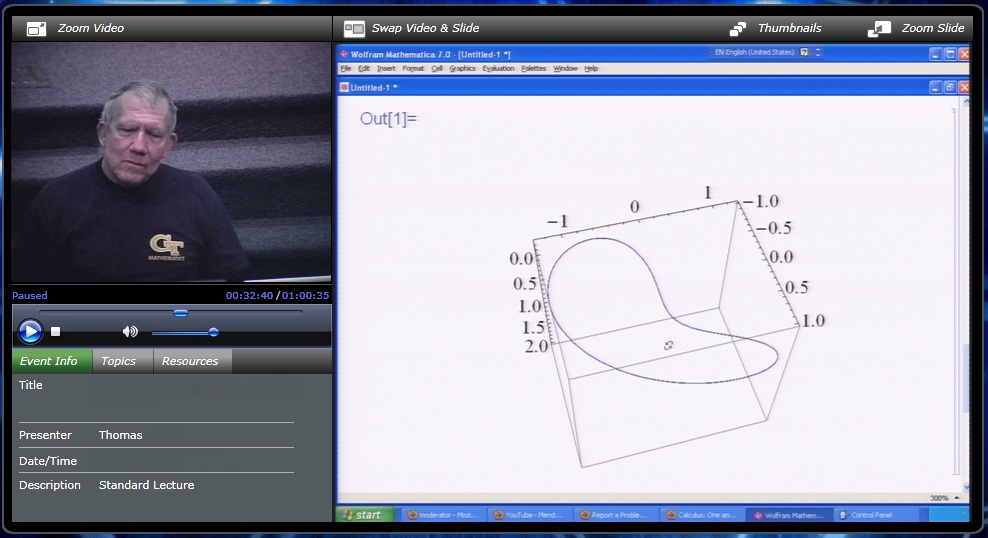 This is a screenshot of Dr. Morley lecturing on the space cardioid, about 30 seconds after stating that one of his students should make a wikipedia page on it.